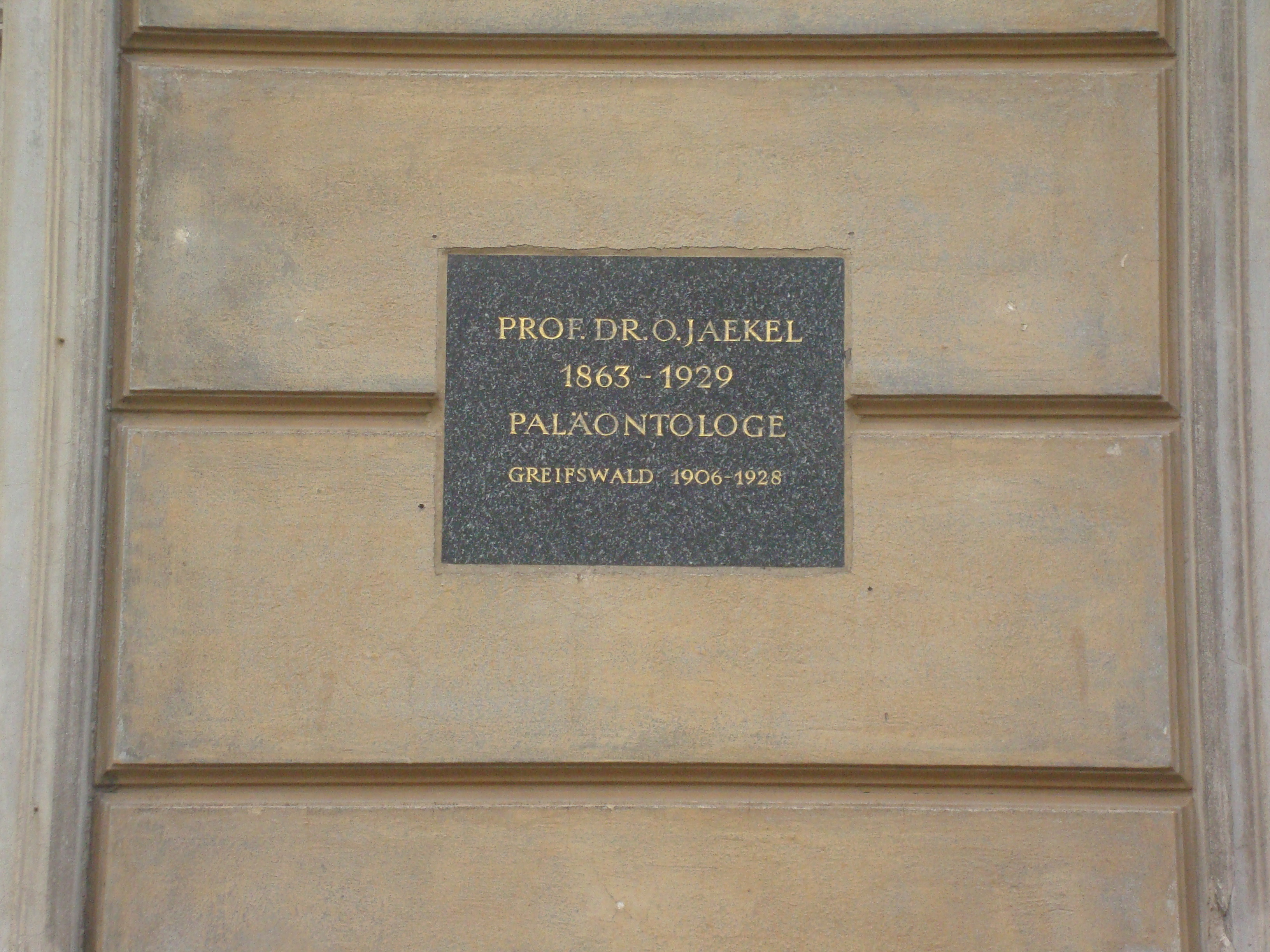 Commemorative plaque for Otto Jaekel at Bahnhofstraße 46/47 in Greifswald, Germany.